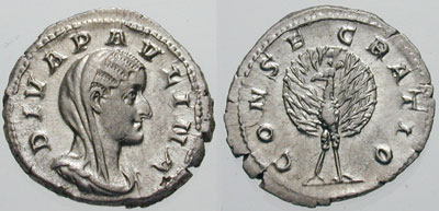 DIVA PAULINA, wife of Maximinus I. AR Denarius (3.36 gm). Veiled and draped bust right / Peacock standing facing, head left, with tail spread. RIC IV 1; BMCRE 135 (Maximinus); RSC 1.